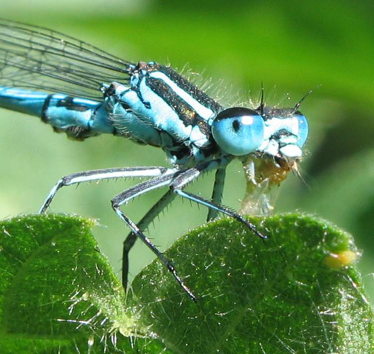 Author: soebe Date: June 15, 2005 Location: Hamburg, Northern Germany